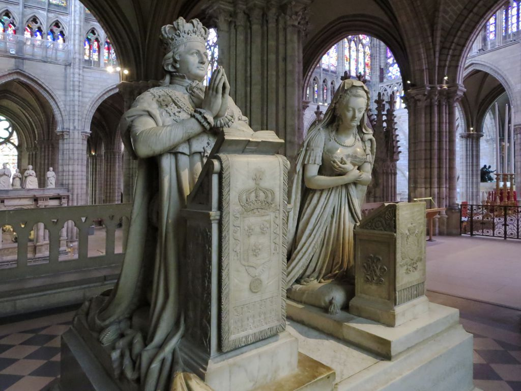 Louis XVI and Marie Antoinette died on the guillotine In 1793 during the French Revolution. In 1830 their ashes and these statues were placed in the Basilique Cathedrale de Saint Denis in Paris.